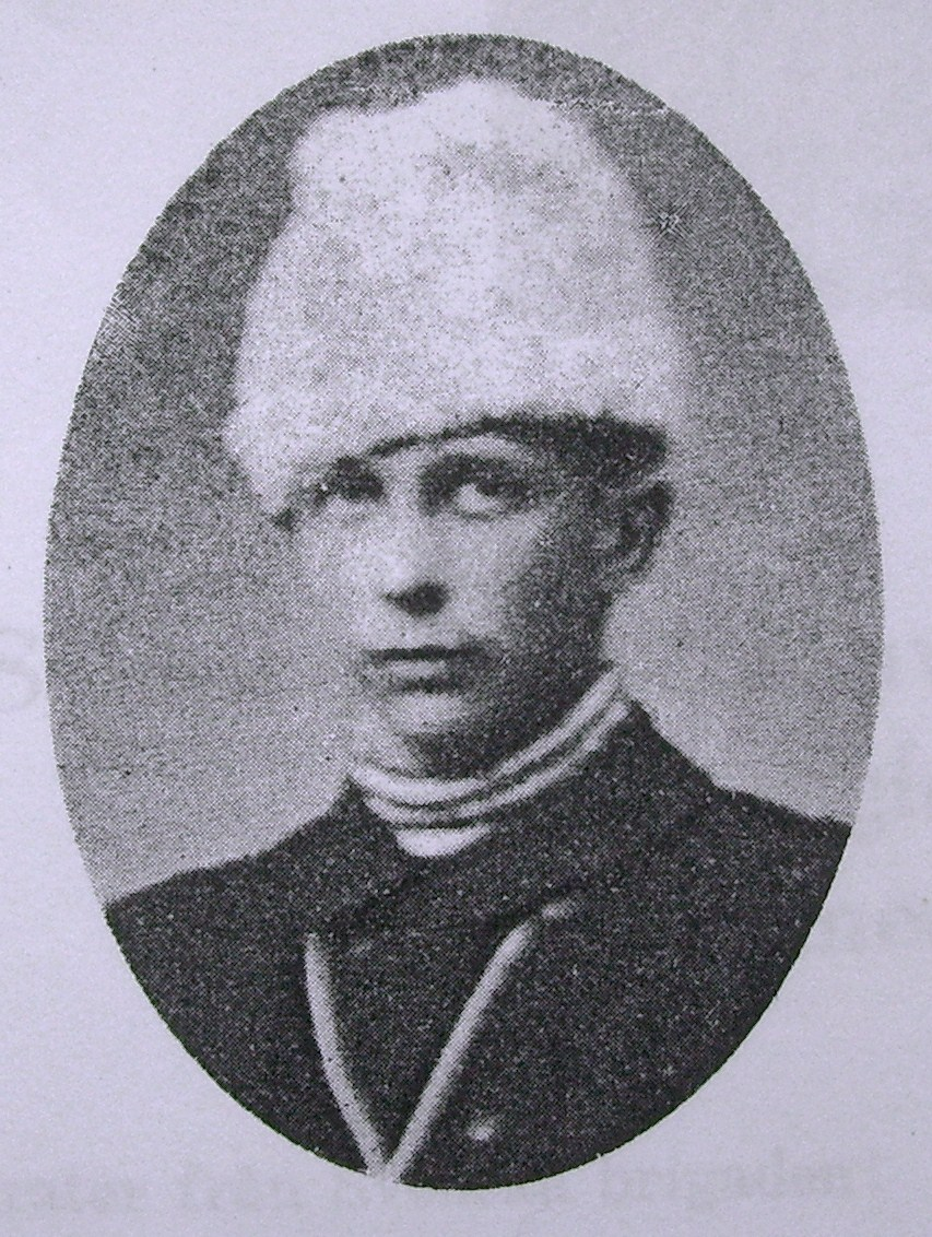 Picture of Hilding Bakke, Swedish vicar